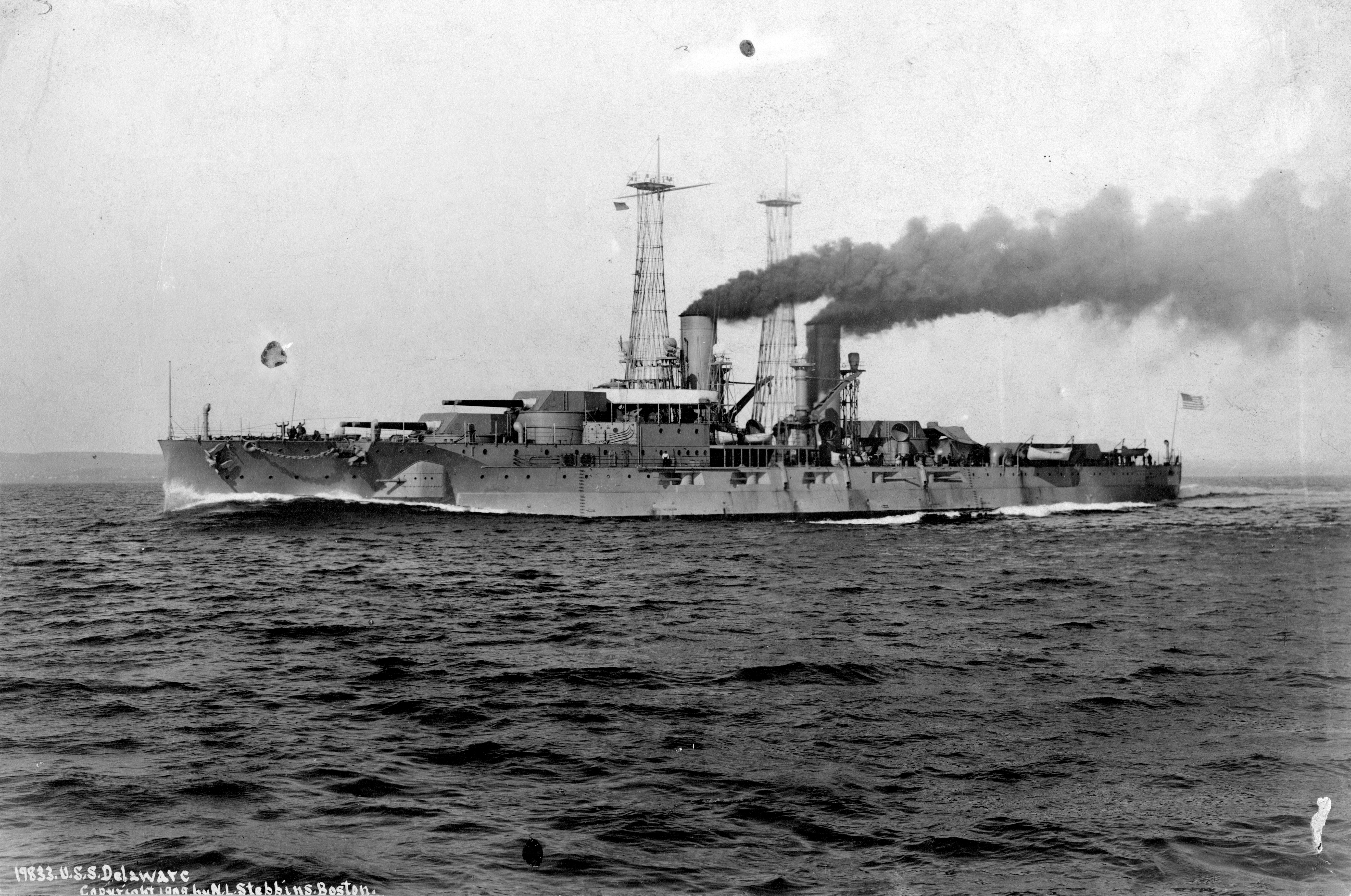 Running trials, circa late 1909. Photographed by N.L. Stebbins, Boston, Massachusetts. U.S. Naval History and Heritage Command Photograph.